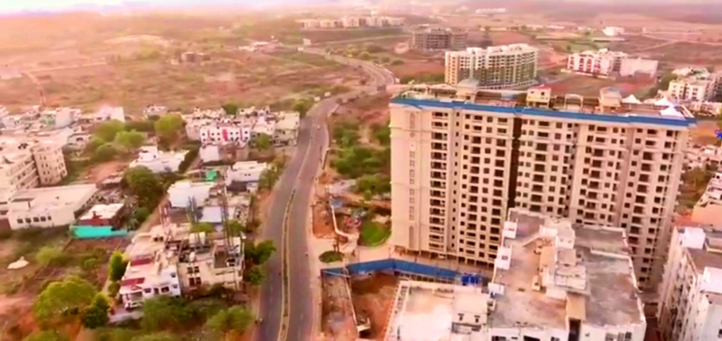 This is skyline of gwalior city